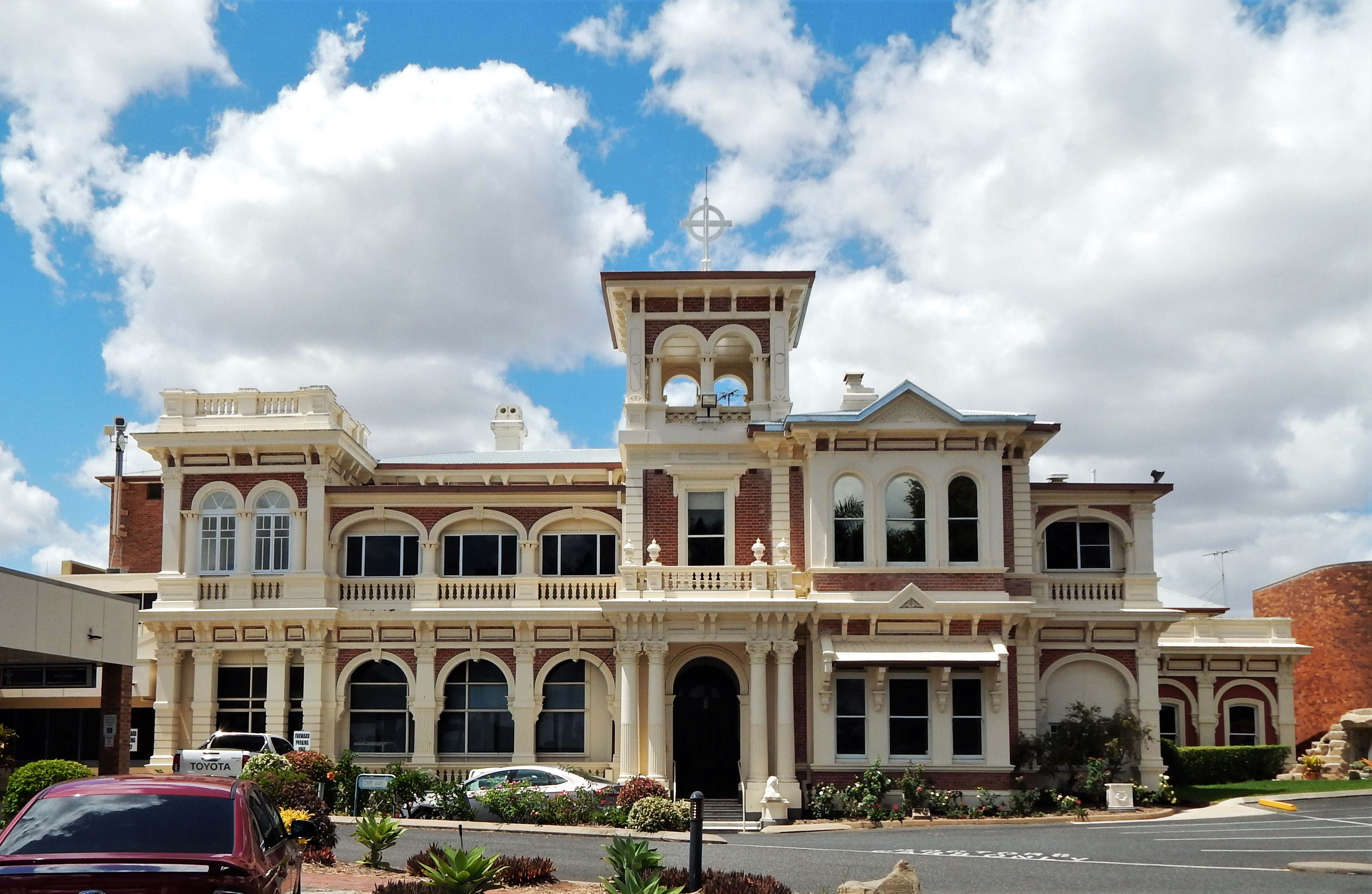 Heritage-listed mansion, Kenmore House - part of Rockhampton's Mater Misericordiae Hospital in Ward Street